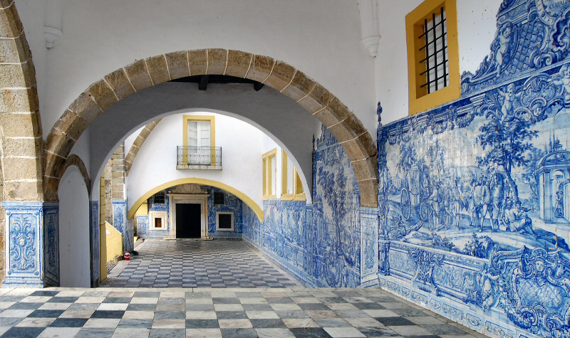 Portalegre_Municipality The file name is not correct. Is Correct, Mosteiro de São Bernardo